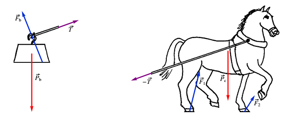 Forças sobre o bloco e sobre o cavalo.